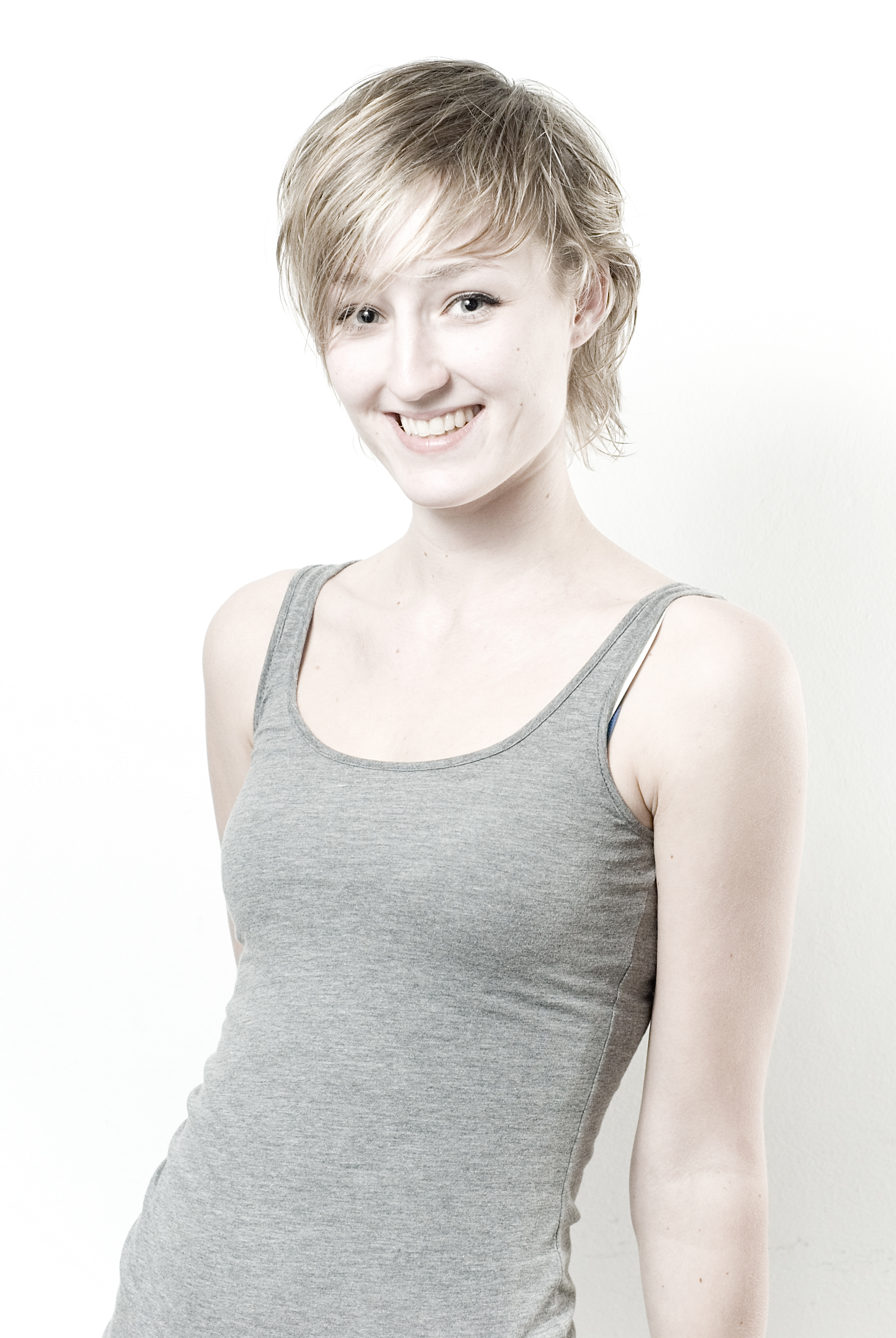 Photo of the Dutch actress Bobbie Koek